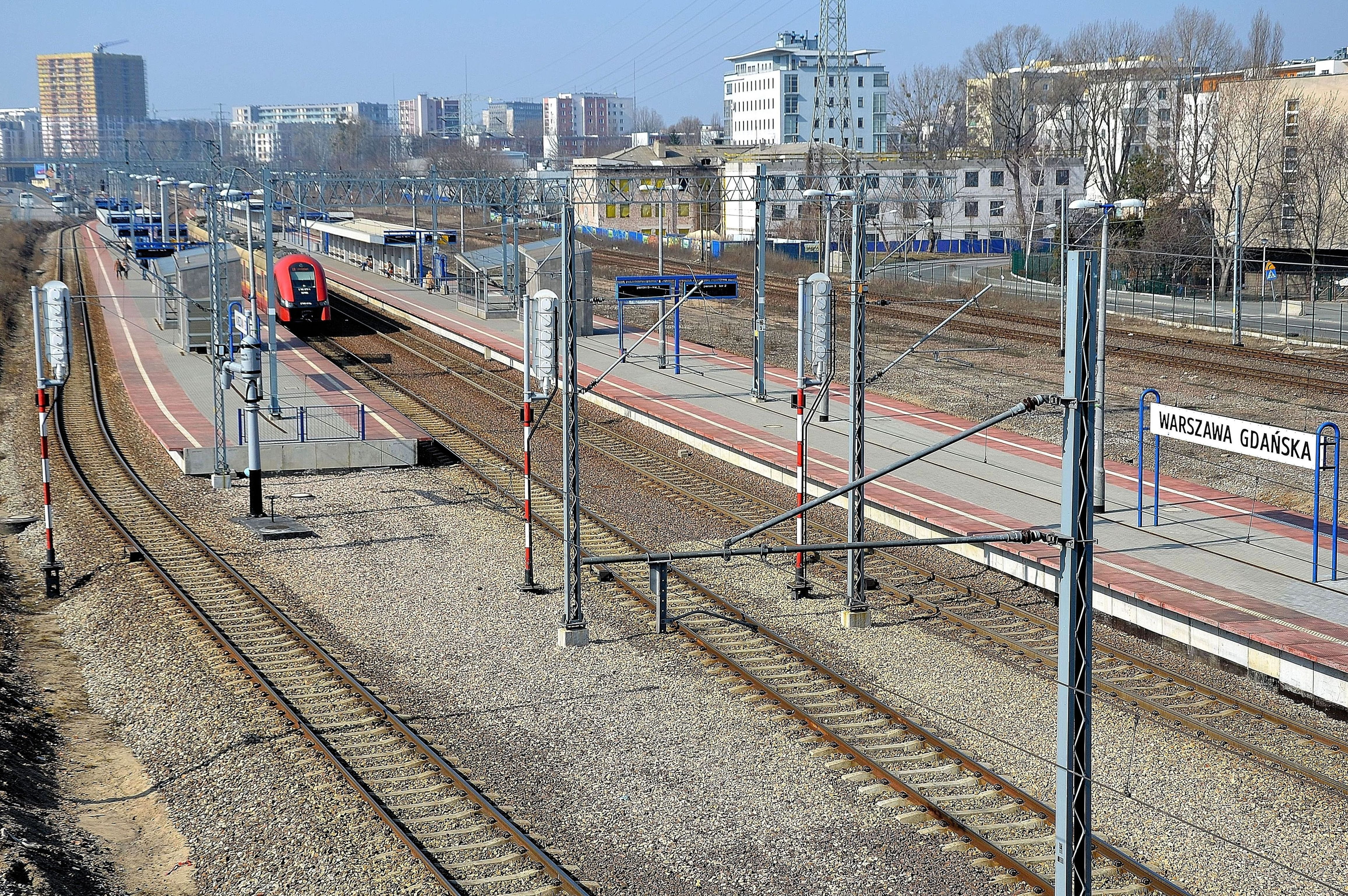 Platforms of Warszawa Gdańska railway station